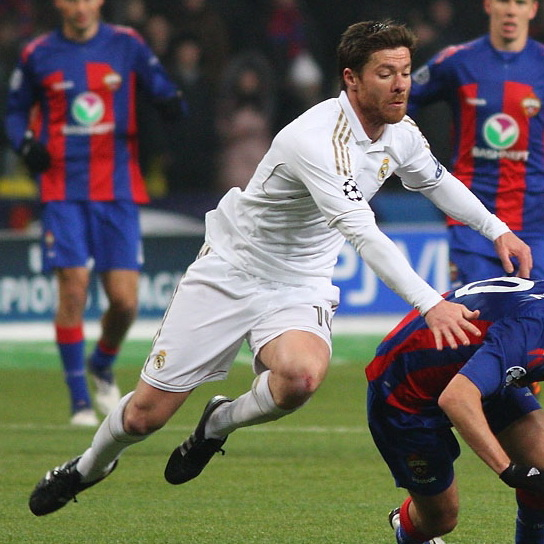 Xabi Alonso